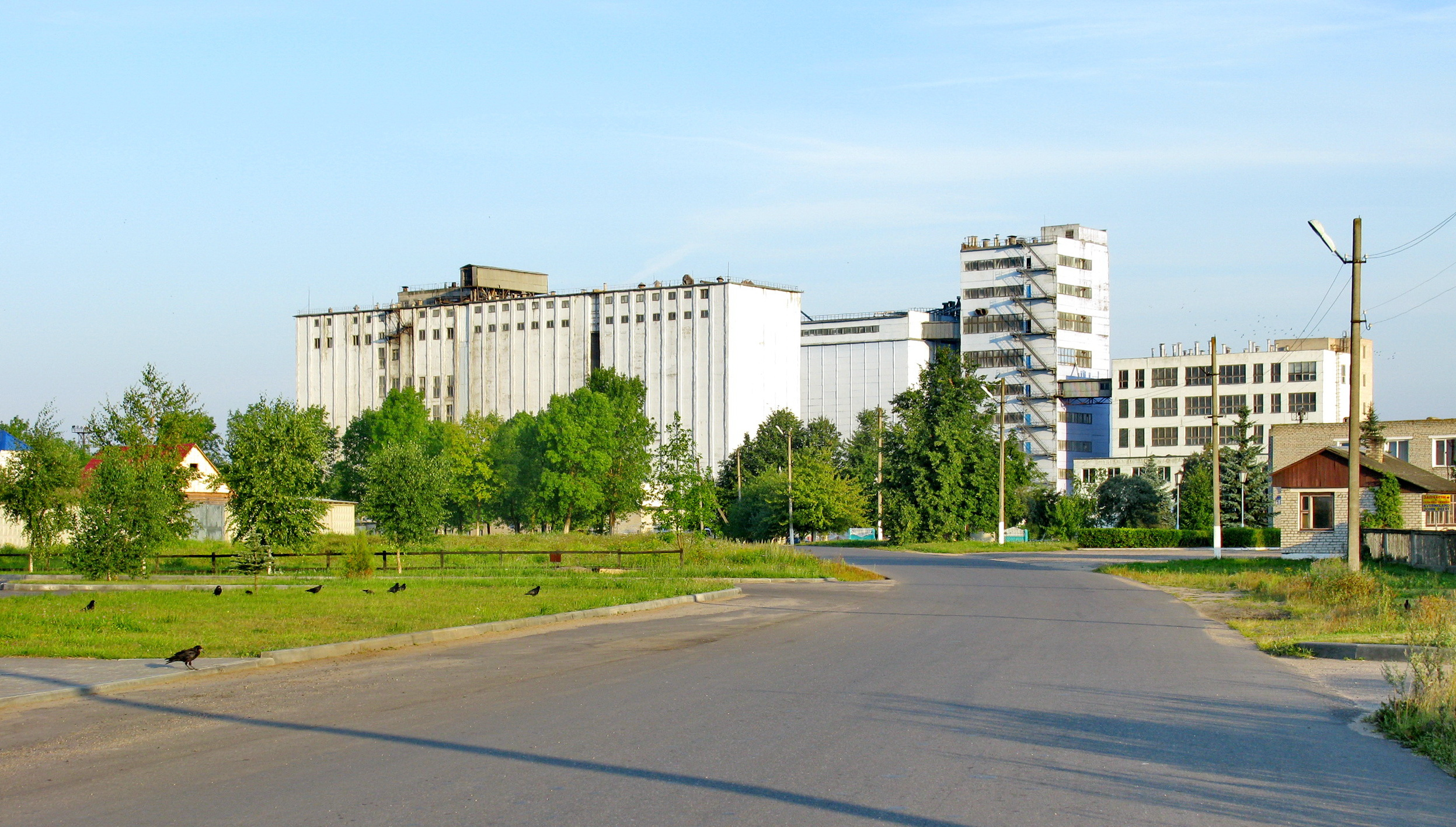 Smarhon feed mill, Belarus